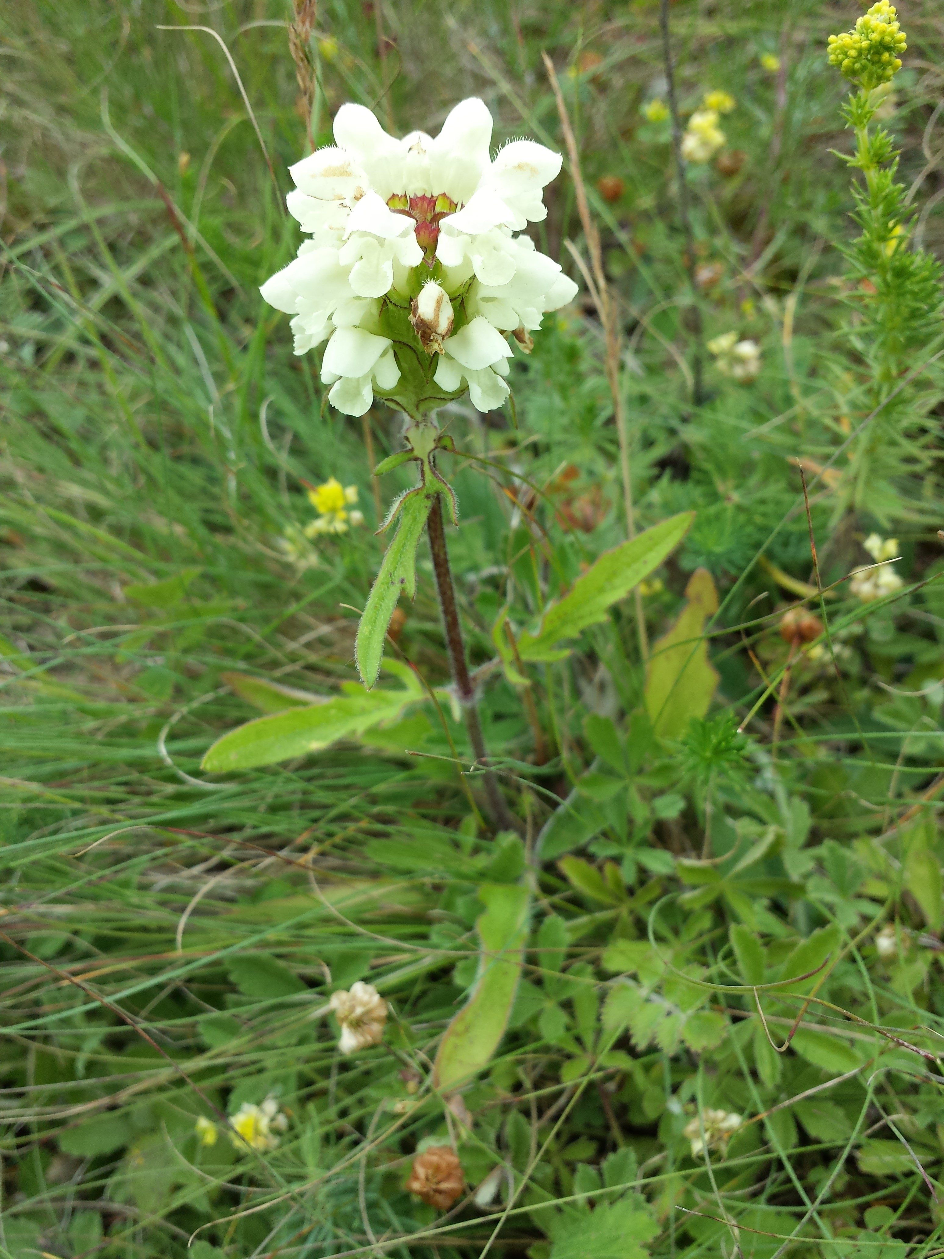 Habitus Taxonym: Prunella laciniata ss Fischer et al. EfÖLS 2008 ISBN 978-3-85474-187-9 Location: to the east of Neusiedl am See, district Neusiedl am See, Burgenland, Austria - ca. 160 m a.s.l. Habitat: semi-dry grassland